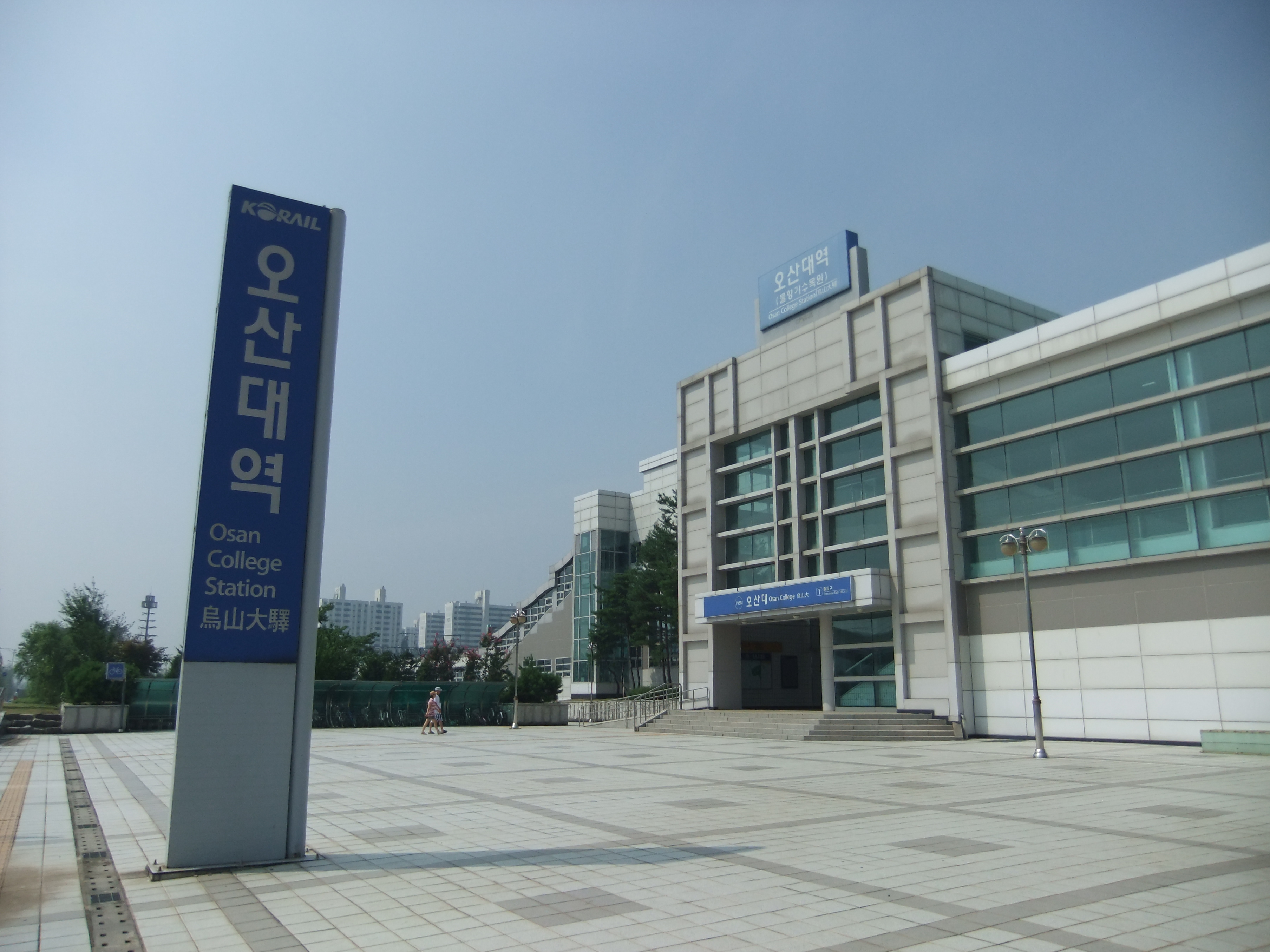 osandae station at gyeongbu line in korea